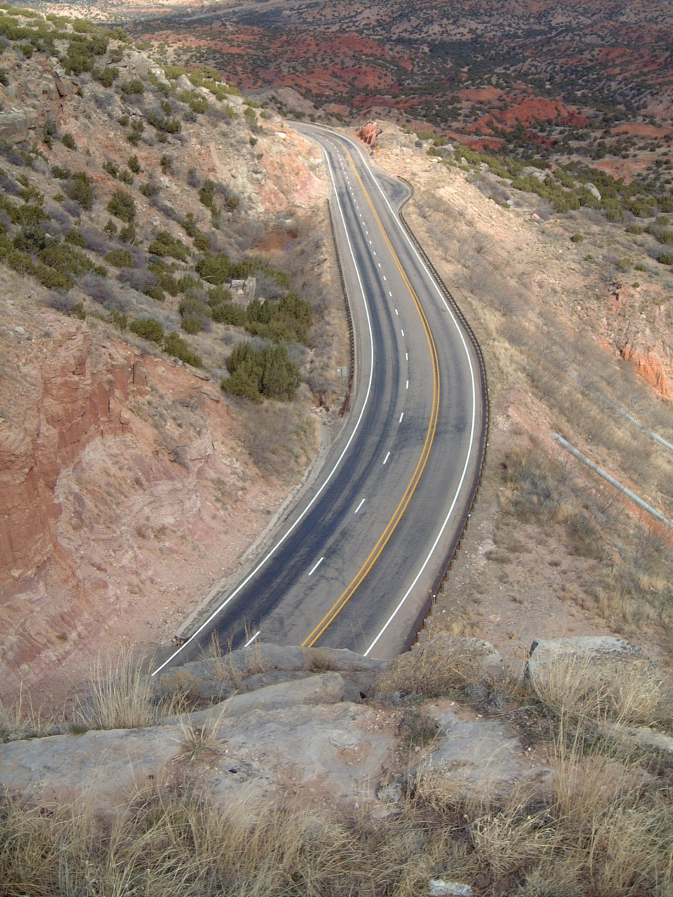 Texas State Highway 207 as it winds its way through the valley of the Prairie Dog Town Fork Red River at the eastern edge of the Llano Estacado. This section of highway is also known as Hamblen Drive.